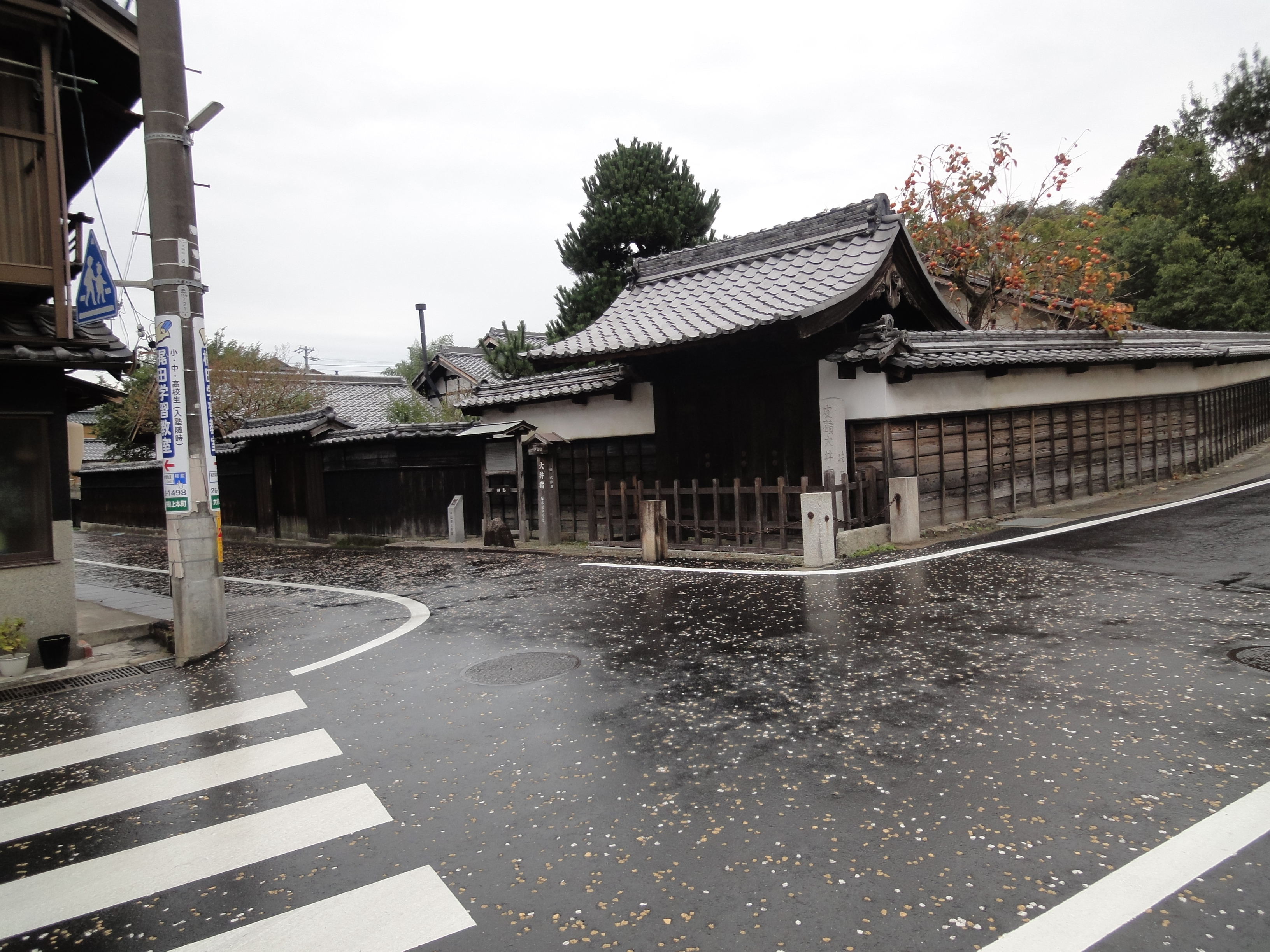 The honjin (government officials' inn) of Oi-juku.